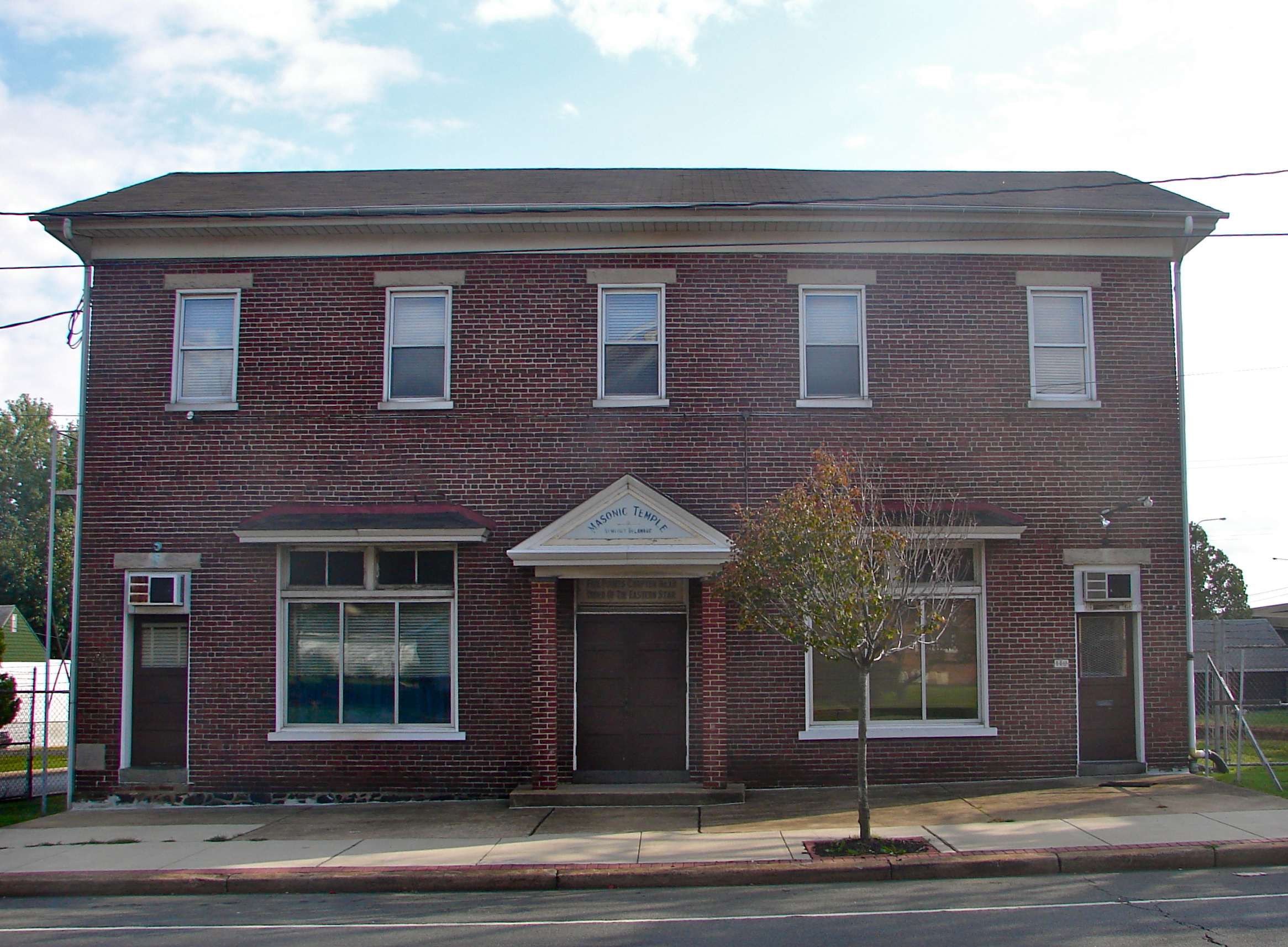 Armstrong Lodge No. 26, A.F. & A.M. (Masonic Lodge) on the NRHP since July 14, 1993. At 112-114 E. Market St. in Christiana Hundred, Newport, Delaware.